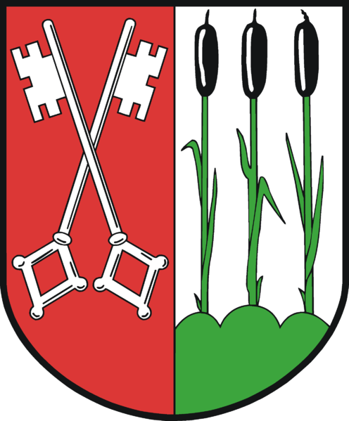 Coat of arms of Oschersleben